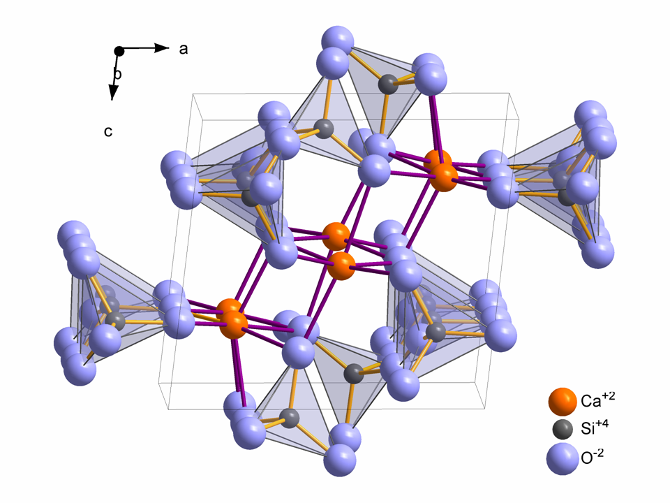 Unit cell of wollastonite viewed along [010] (Elementarzelle von Wollastonit mit Blick entlang der b-Achse)